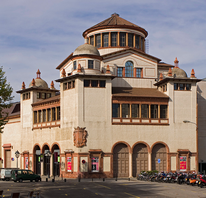 External image of Mercat de les Flors